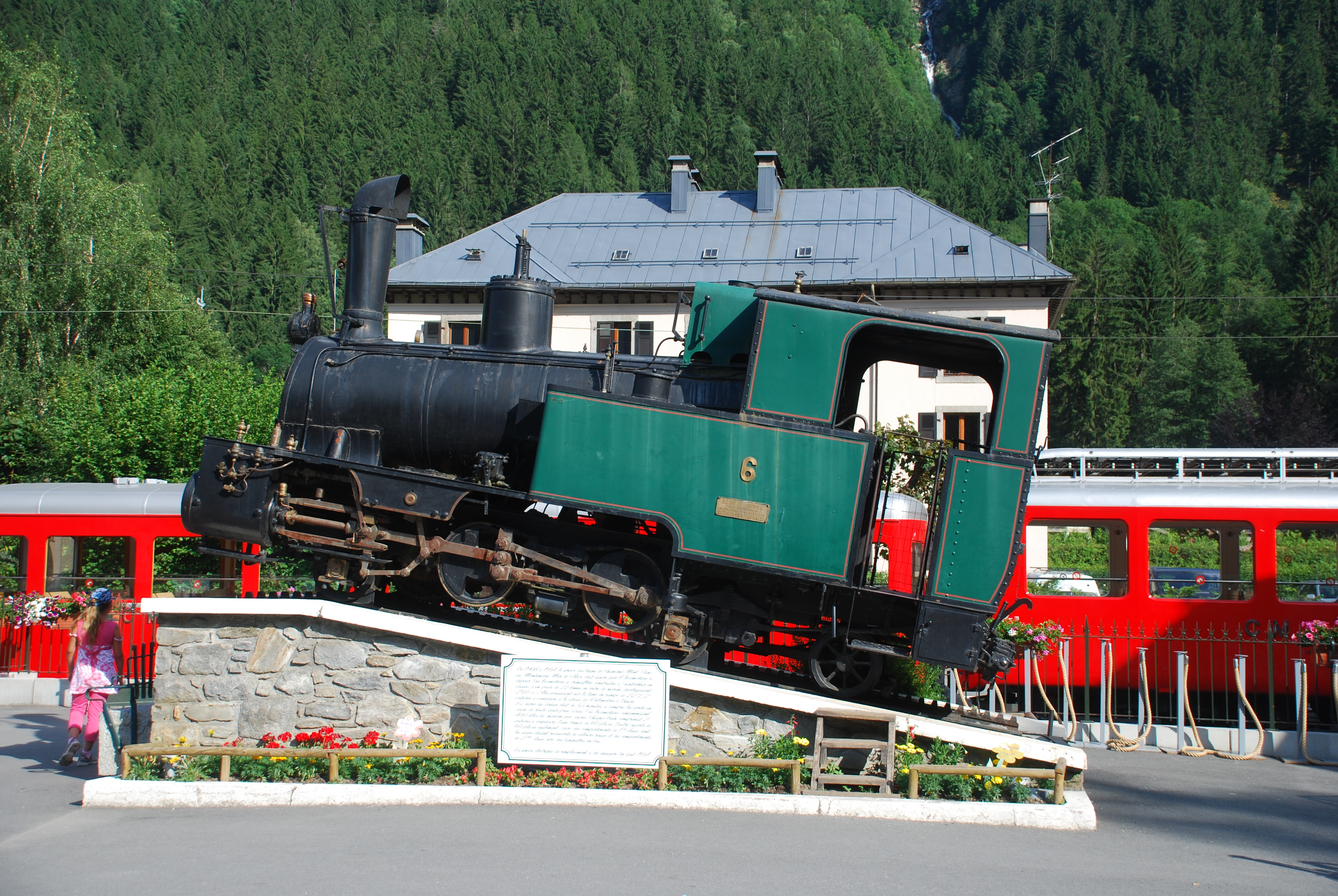 Steam locomotive #6 of the Montenvers railway.